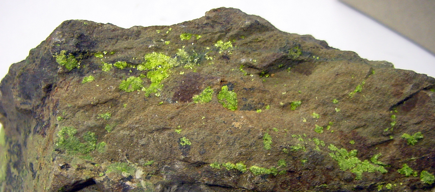 Tangeite (synonyme: Calciovolborthite). Collected from Montrose County, Colorado. Mineral collection of Bringham Young University Department of Geology, Provo, Utah. Photograph by Andrew Silver. BYU index 9-9026, CaCuVO_4(OH).